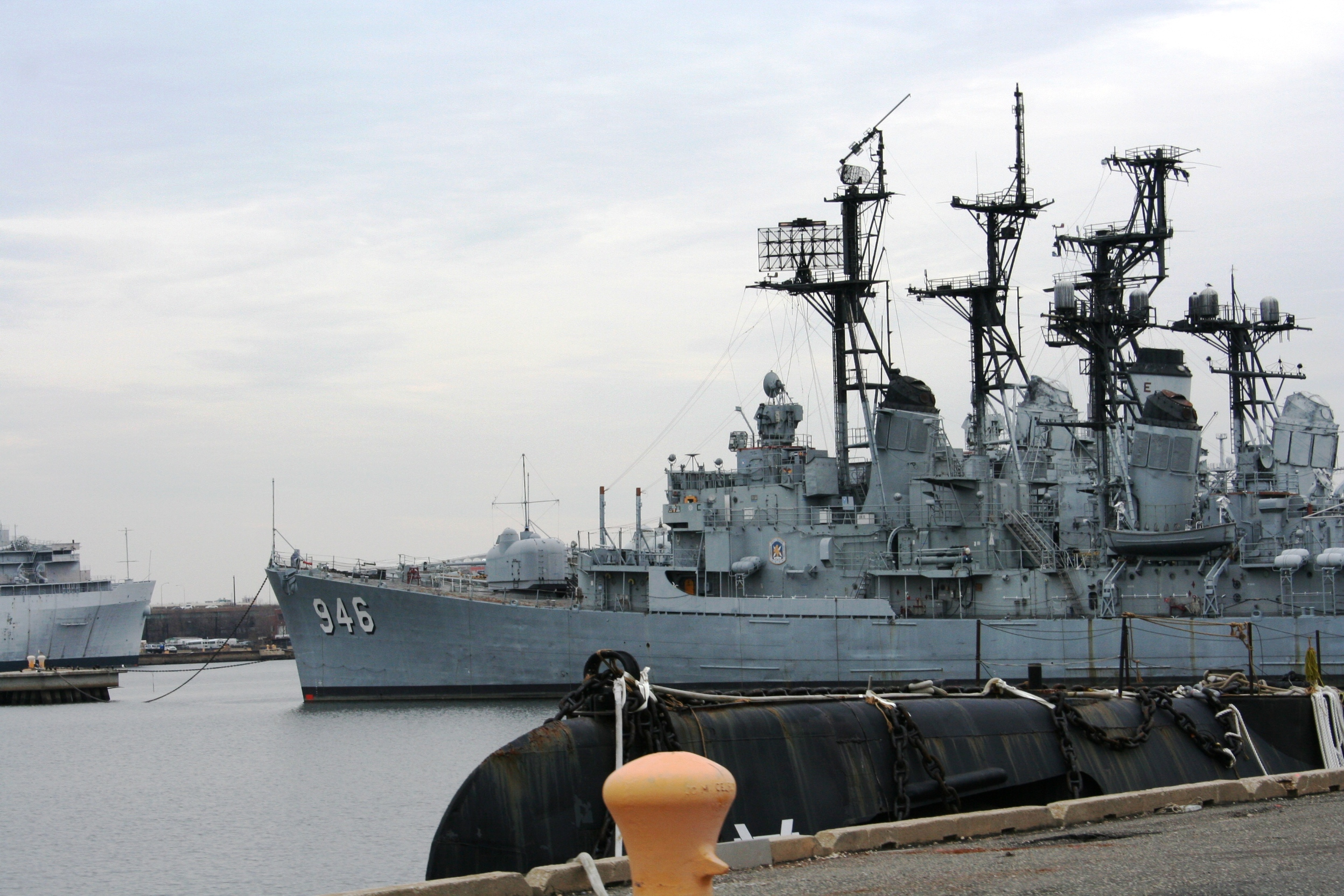 Bow of the USS Edson at Philadelphia Naval Shipyard, along side other destroyers and USS Trout submarine